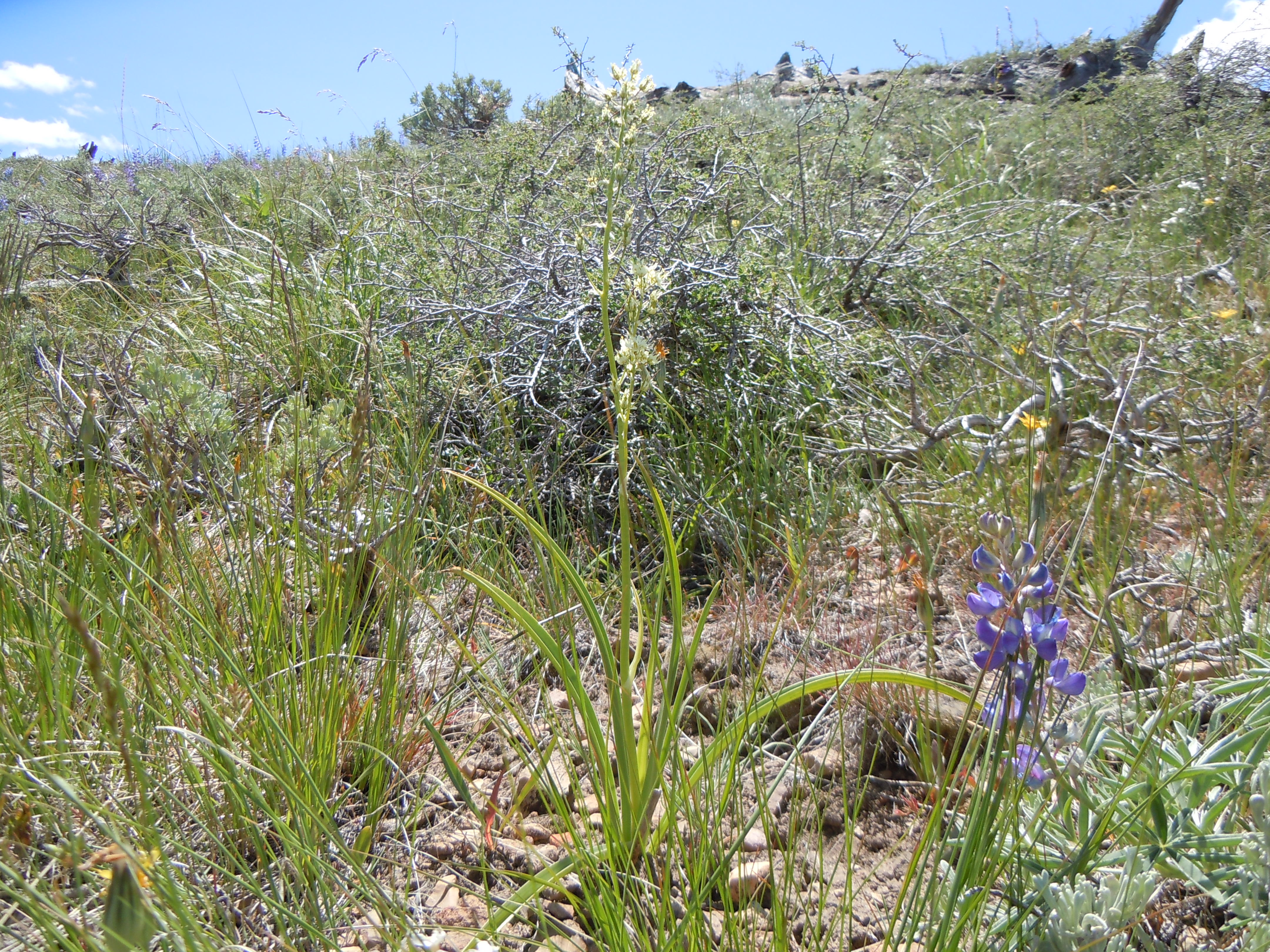 Foothill deathcamas is sporadic in the sagebrush steppe of this area from the lowest to highest elevations.